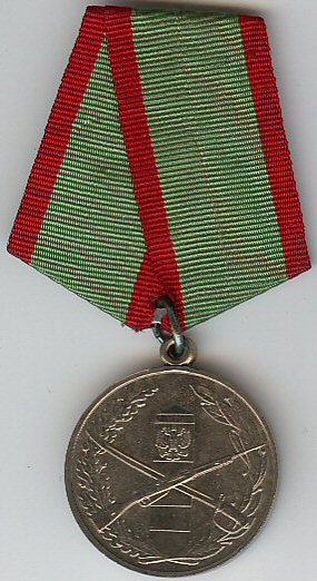 Russian Federation, State Decoration, Medal For Distinguished Service In Defence Of The State Frontiers. Established on 2 March 1992. Conferred to members of the Frontier Force, as well as to the persons who are not members of it for acts of courage and sacrifice while defending the state frontier of the Federation.